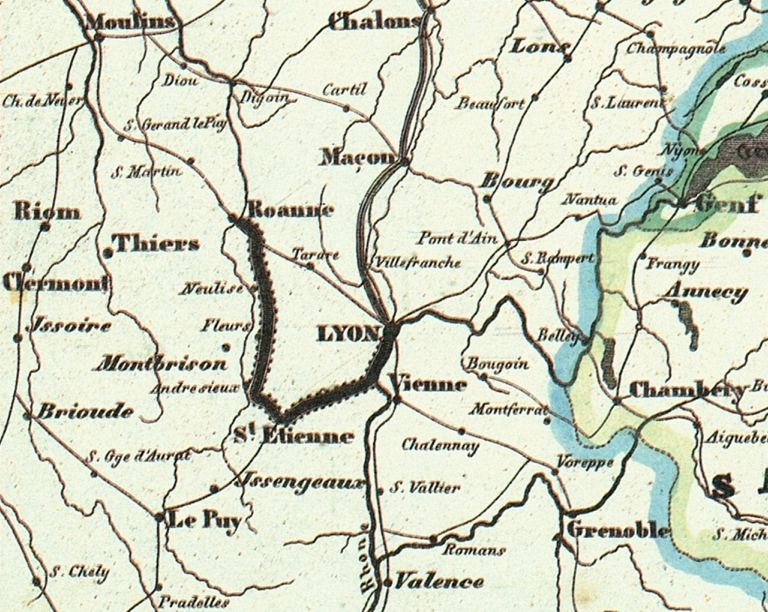 Cut of Bahnkarte_Deutschland_(und Nachbargebiete) 1849, (i.e.: Railroad Map of Germany and Neighbouring Regions in 1849) showing the French region between Switzerland and upper Allier